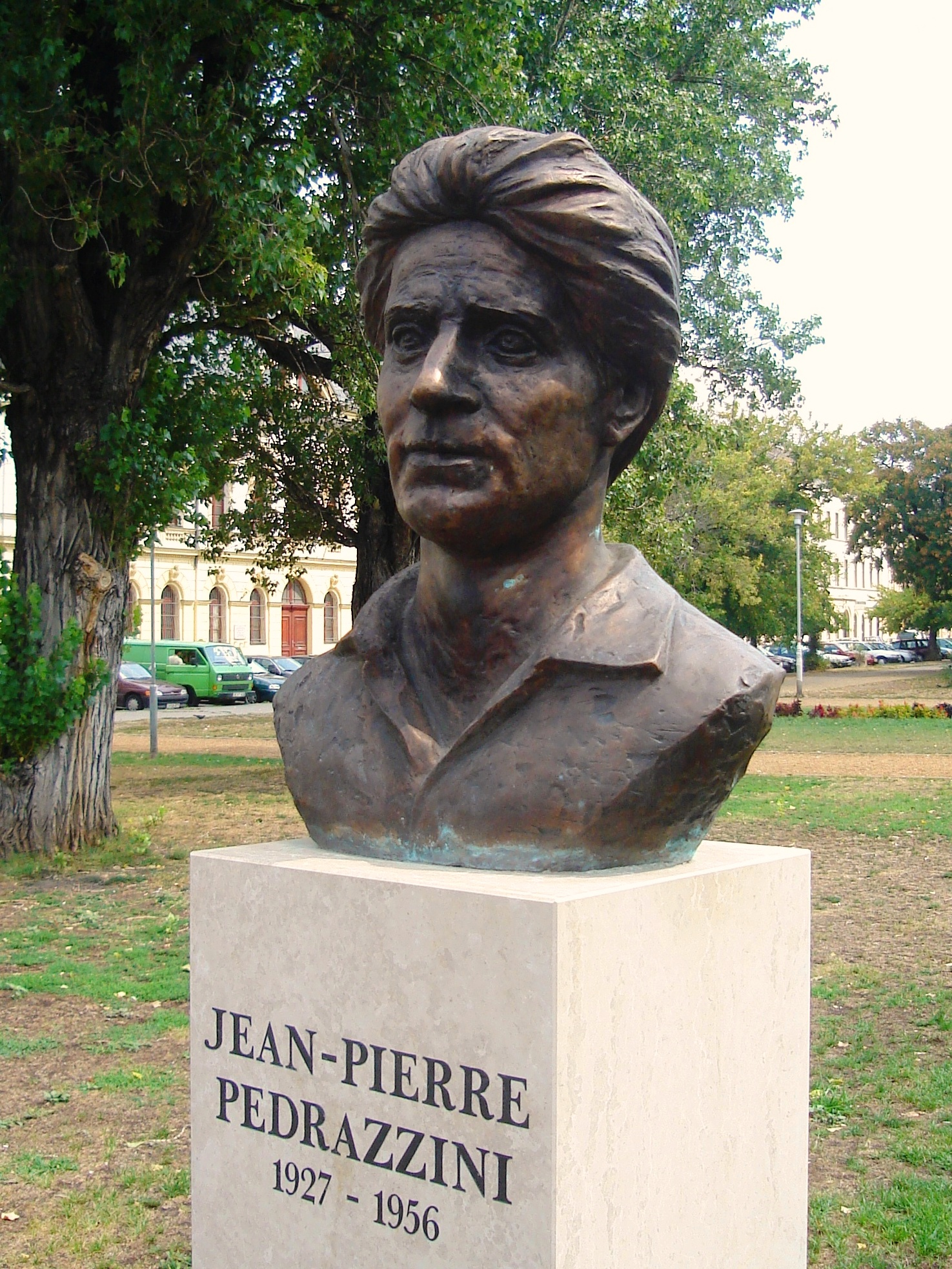 Picture: Jean-Pierre Pedrazzini’s memorial on square Köztársaság (=Republic) in Budapest next to the location where he was wounded to death on 30th October 1956. This bust erected by the Embassies of France and of Switzerland in Hungary as well as the magazine Paris Match, on the initiative of Szent László Youth Association was inaugurated on 23rd October 2006 by Mr. Moritz Leuenberger, president of the Swiss Confederation and Mrs. Catherine Colonna, minister-delegate of the French Republic to the European Affairs and Mr. Olivier Royan, director of the magazin Paris Match. Taken by User: Fekist